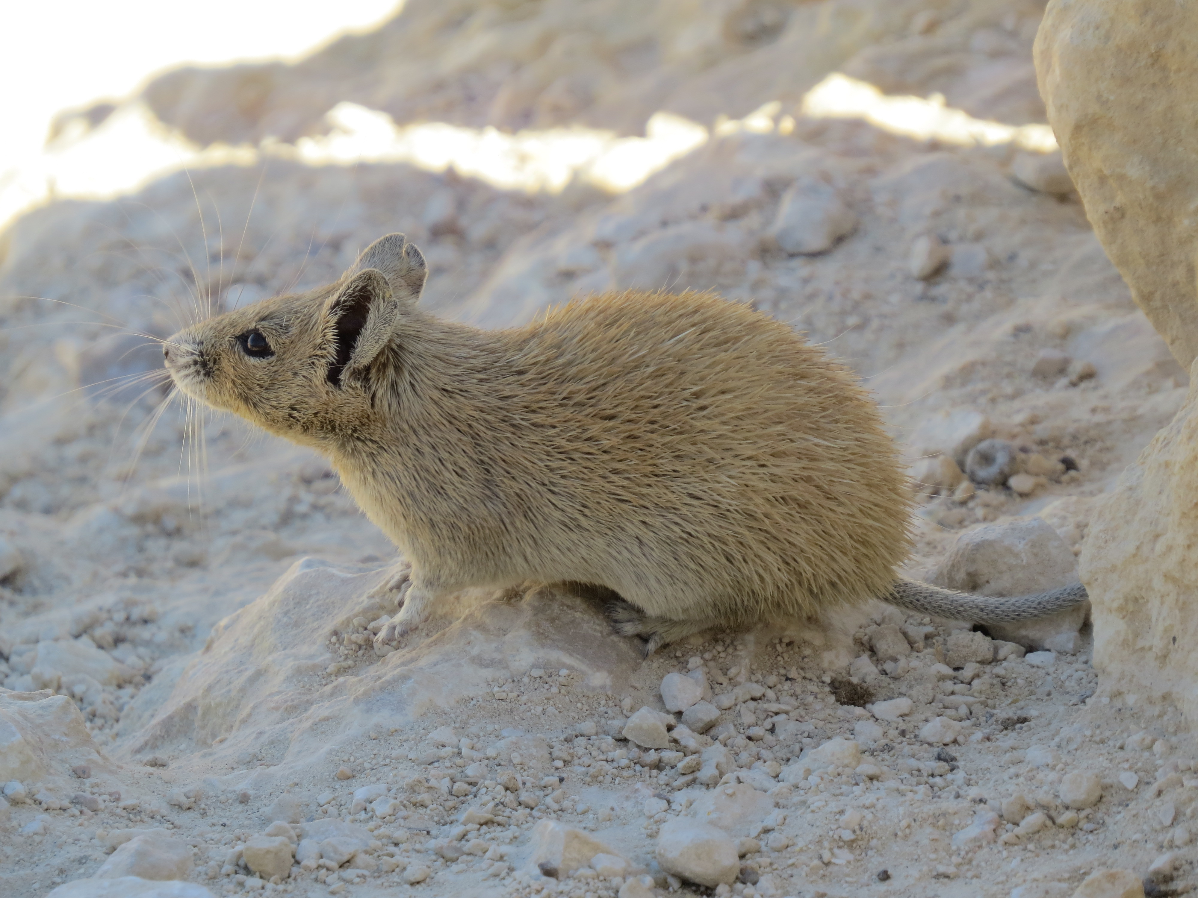 Nature and Colors